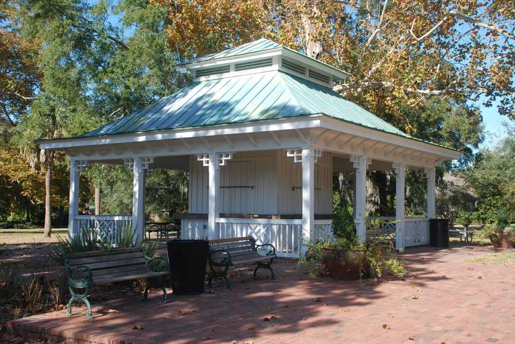 A concession stand was added to Hampton Park in the 1980s during the renovation of the park.